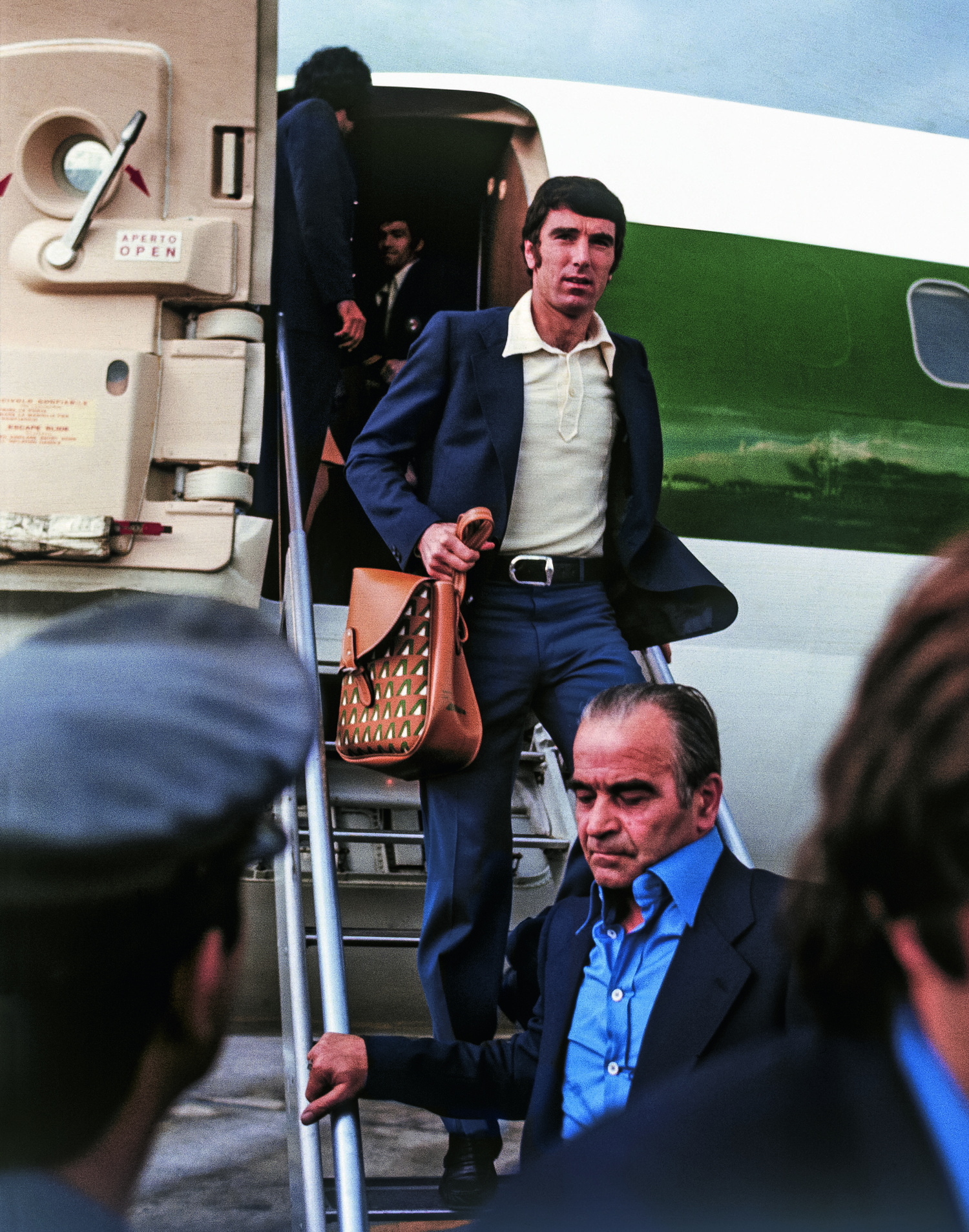 Italy, end of June 1974. The goalkeeper Dino Zoff and the rest of the Italian national football team arrive back in Italy after their early elimination at the 1st round from the 1974 FIFA World Cup in West Germany.